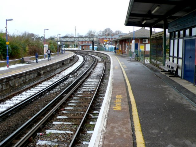 Dorchester South Station View west along the platforms from the eastern end of the north platform. The station will soon (?) be redeveloped as part of Brewery Square redevelopment of the adjacent brewery.